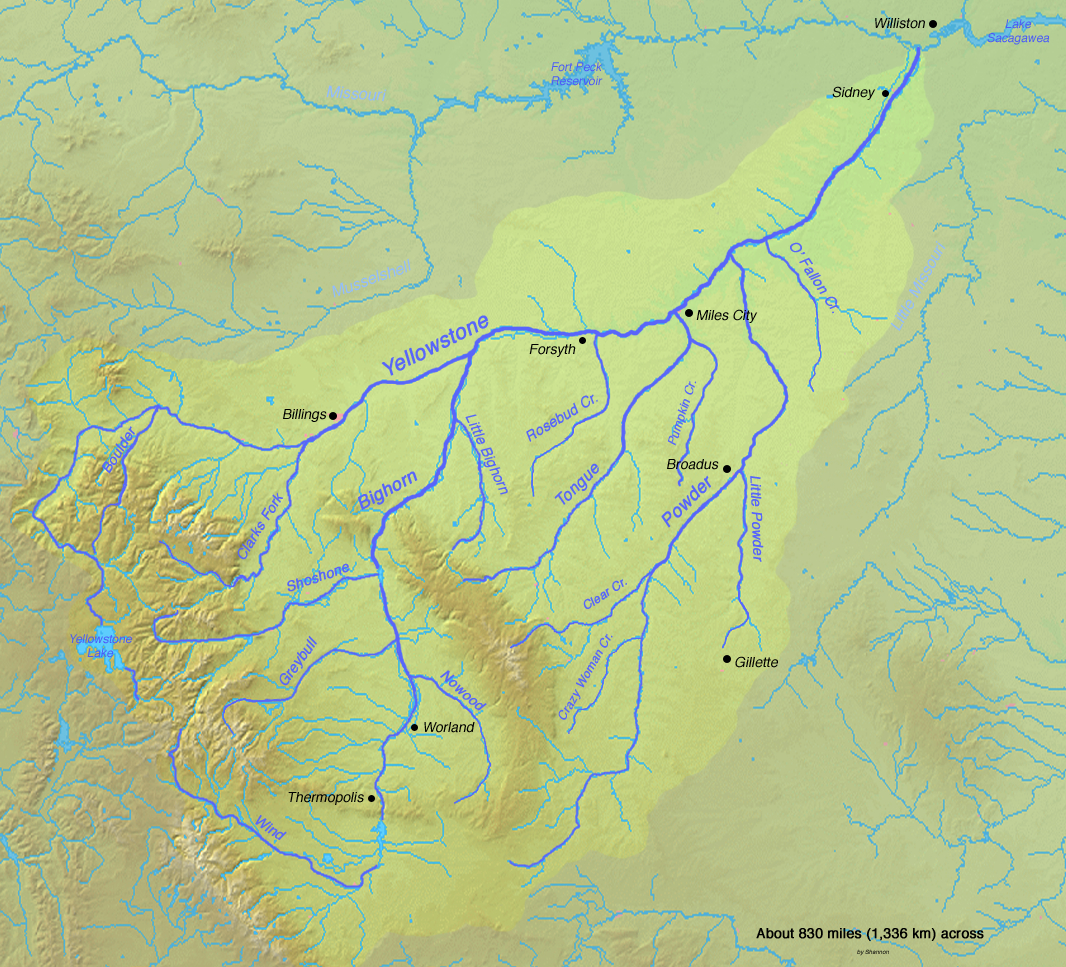 Map of the Yellowstone River watershed in Wyoming, Montana and North Dakota in the north-central USA, that drains to the Missouri River